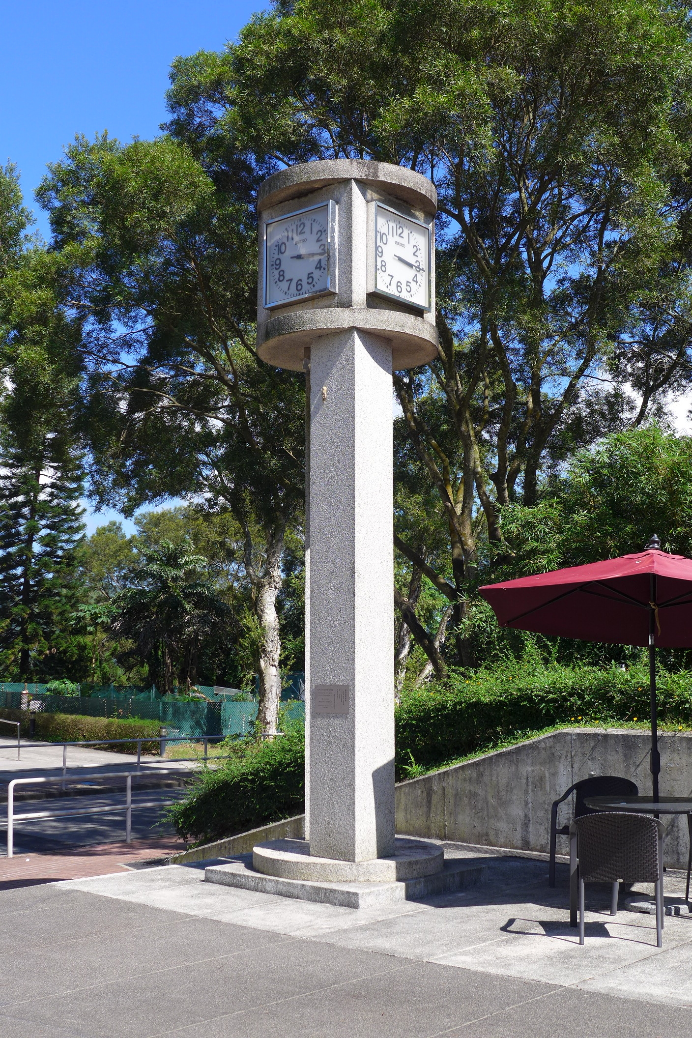 New Asia College Clock Tower